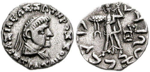 Strato II fine